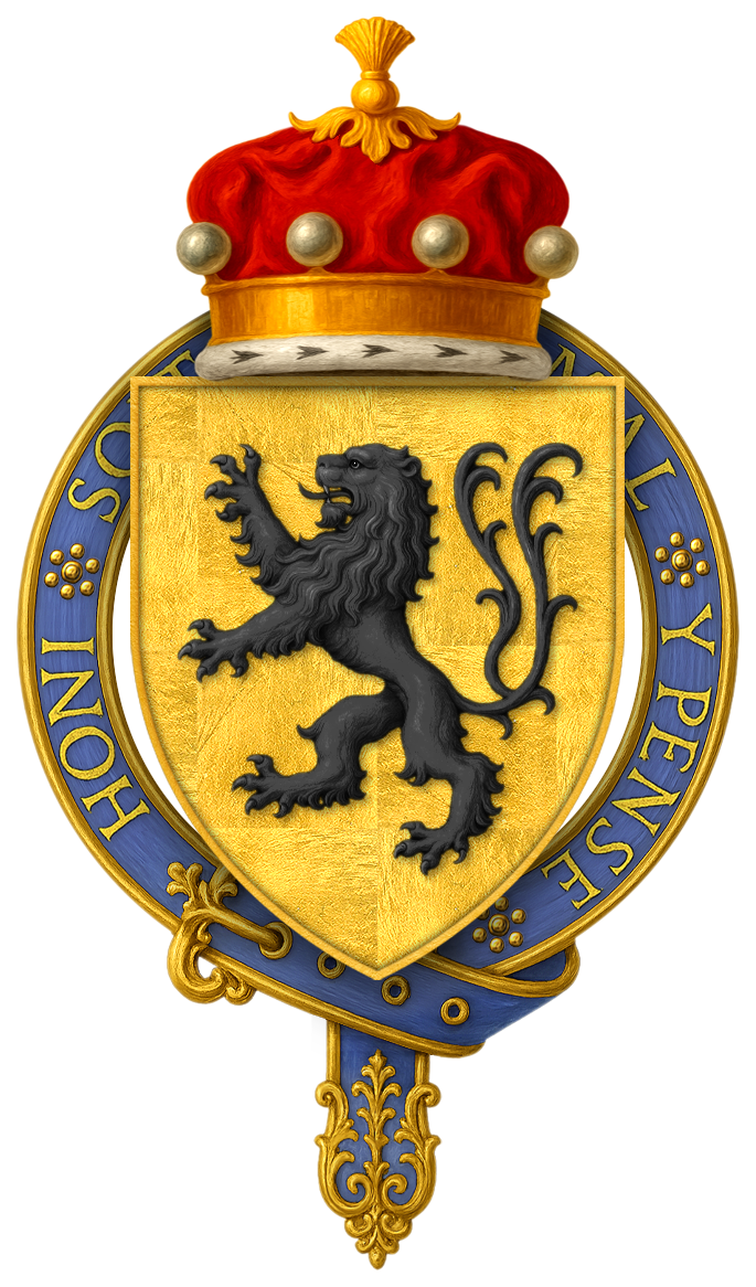 Sir Lionel de Welles, 6th Baron Welles, KG FOSTER, Joseph, Some Feudal Coats of Arms from Heraldic Rolls 1298-1418, London; & Oxford: James Parker & Co., 1902. “ Welles, Sir Adam de, banneret, baron 1293, sealed the Barons' letter to the Pope 1301 -- bore, at the battle of Falkirk 1298 and at the siege of Carlaverock 1300, a lyon rampant tail fourchée sable (F.); as did John, 5th baron, at the siege of Rouen in 1418. ”